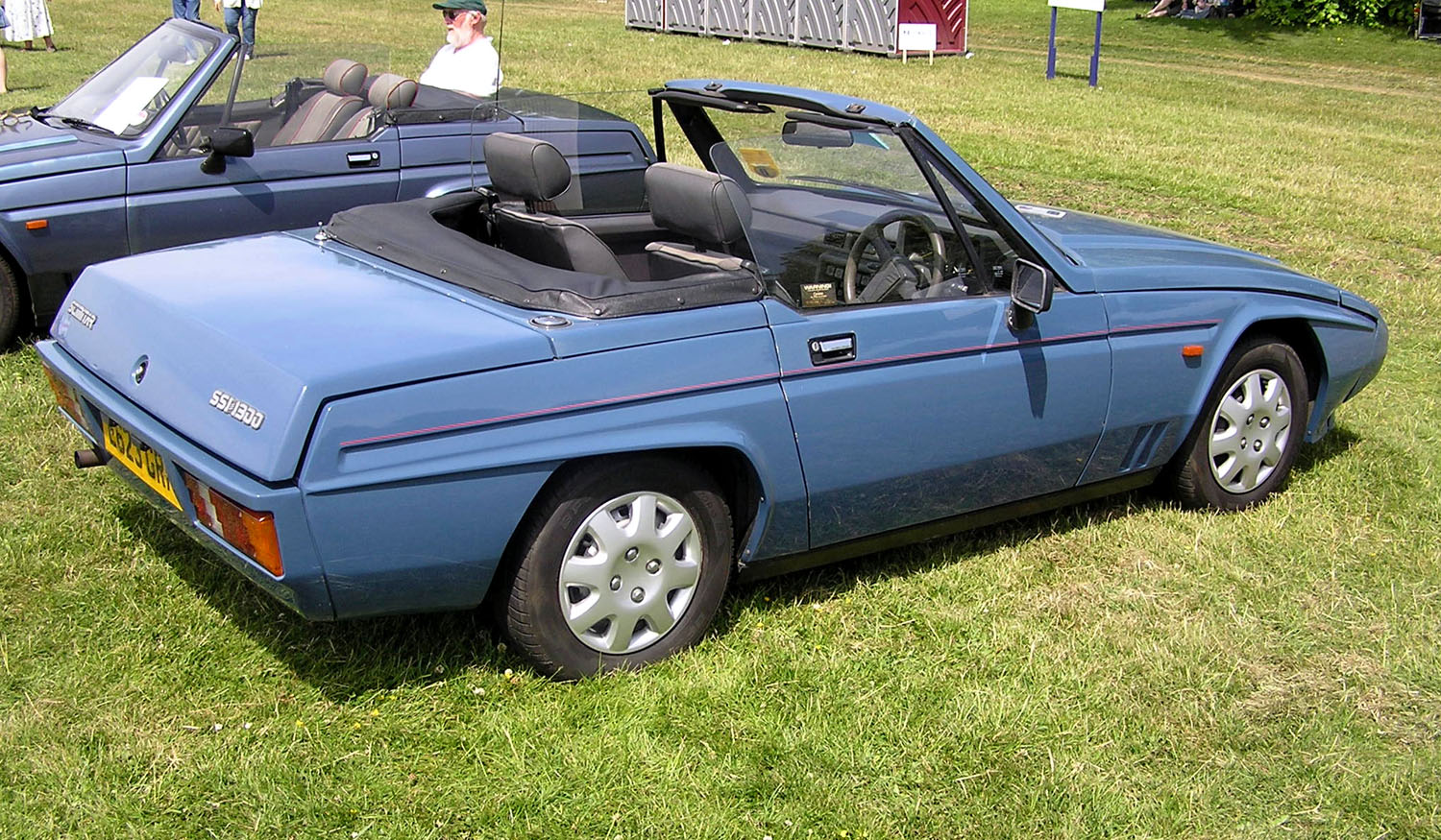 1988 Reliant Scimitar SSI 1300 at Bristol Car Show, The Downs, Bristol, England. Taken by Adrian Pingstone in June 2004 and released to the public domain.